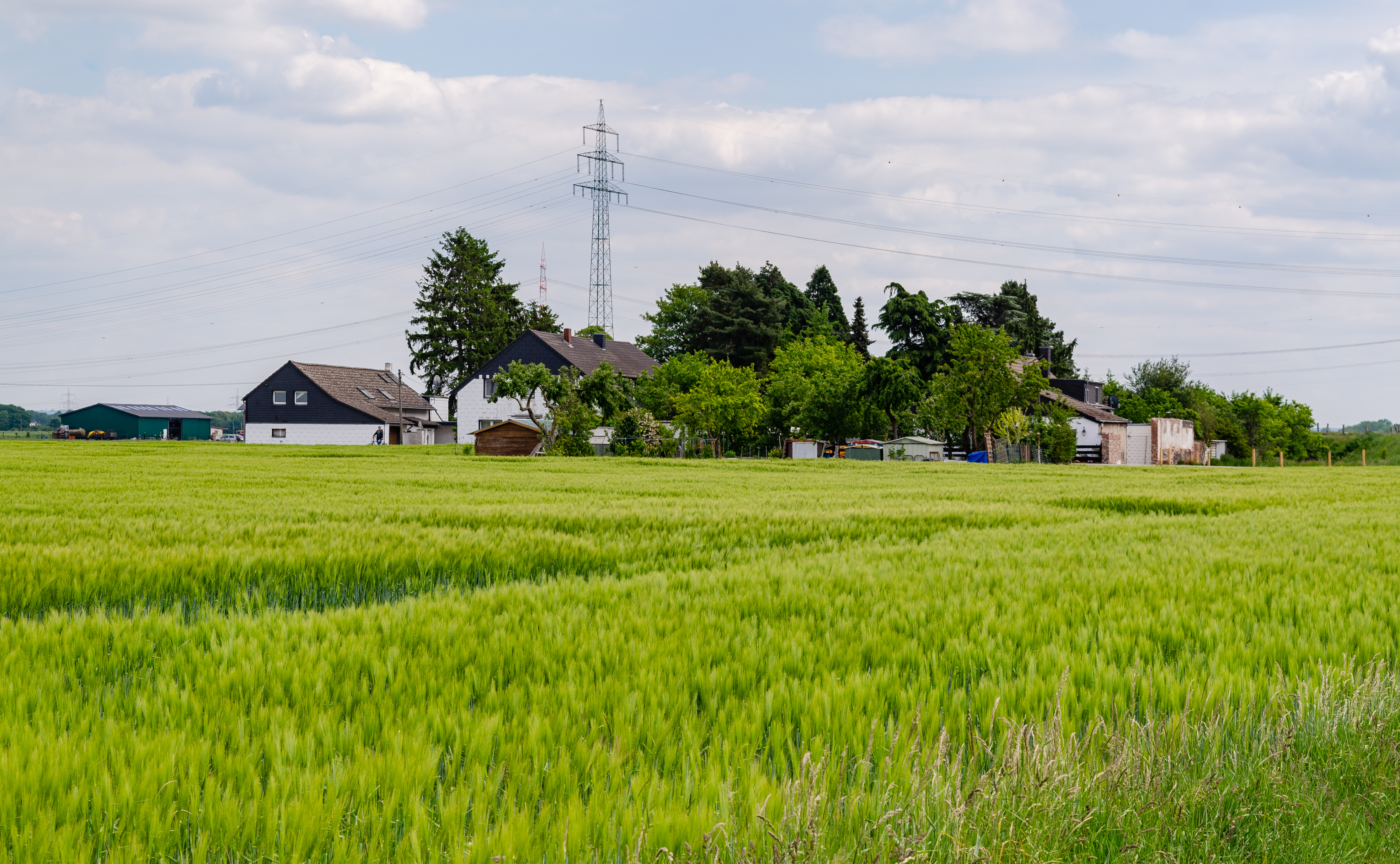 Duisburg (North Rhine-Westphalia, Germany) – borough Süd, district Mündelheim – village Rheinheim